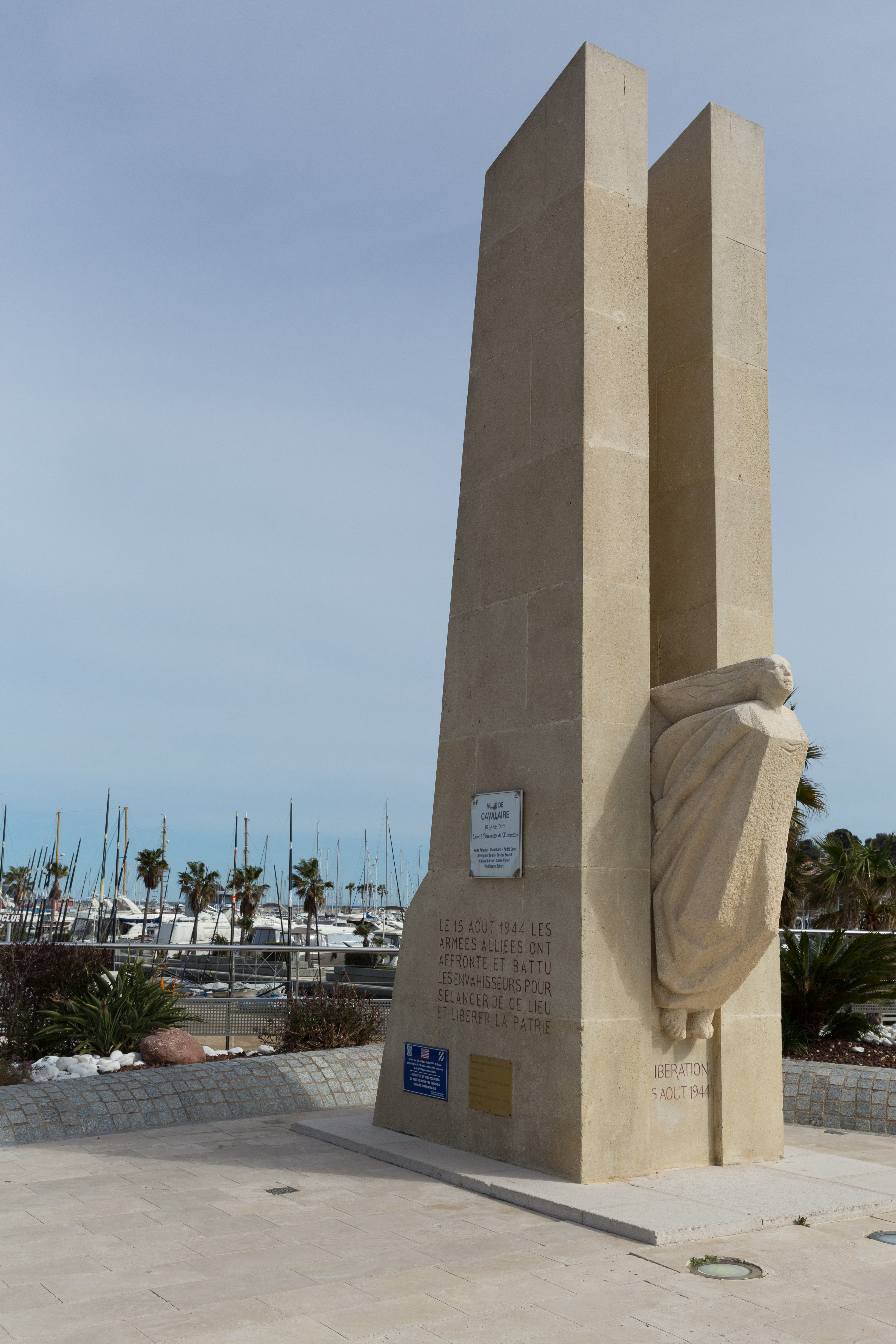 Memorial at the port of Cavalaire-sur-Mer